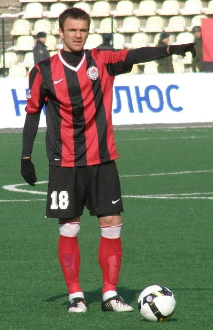 Nikola Drinčić in action for FC Amkar